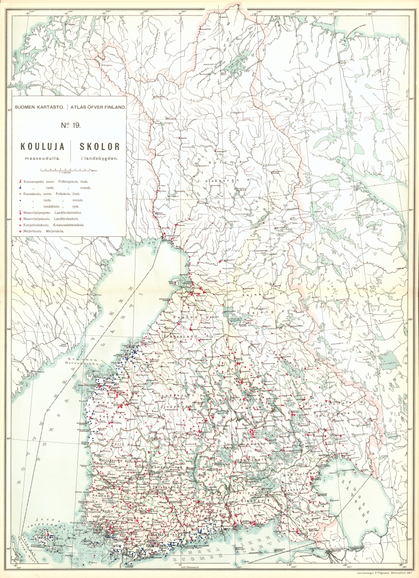 Schools in the Finnish countryside in 1899